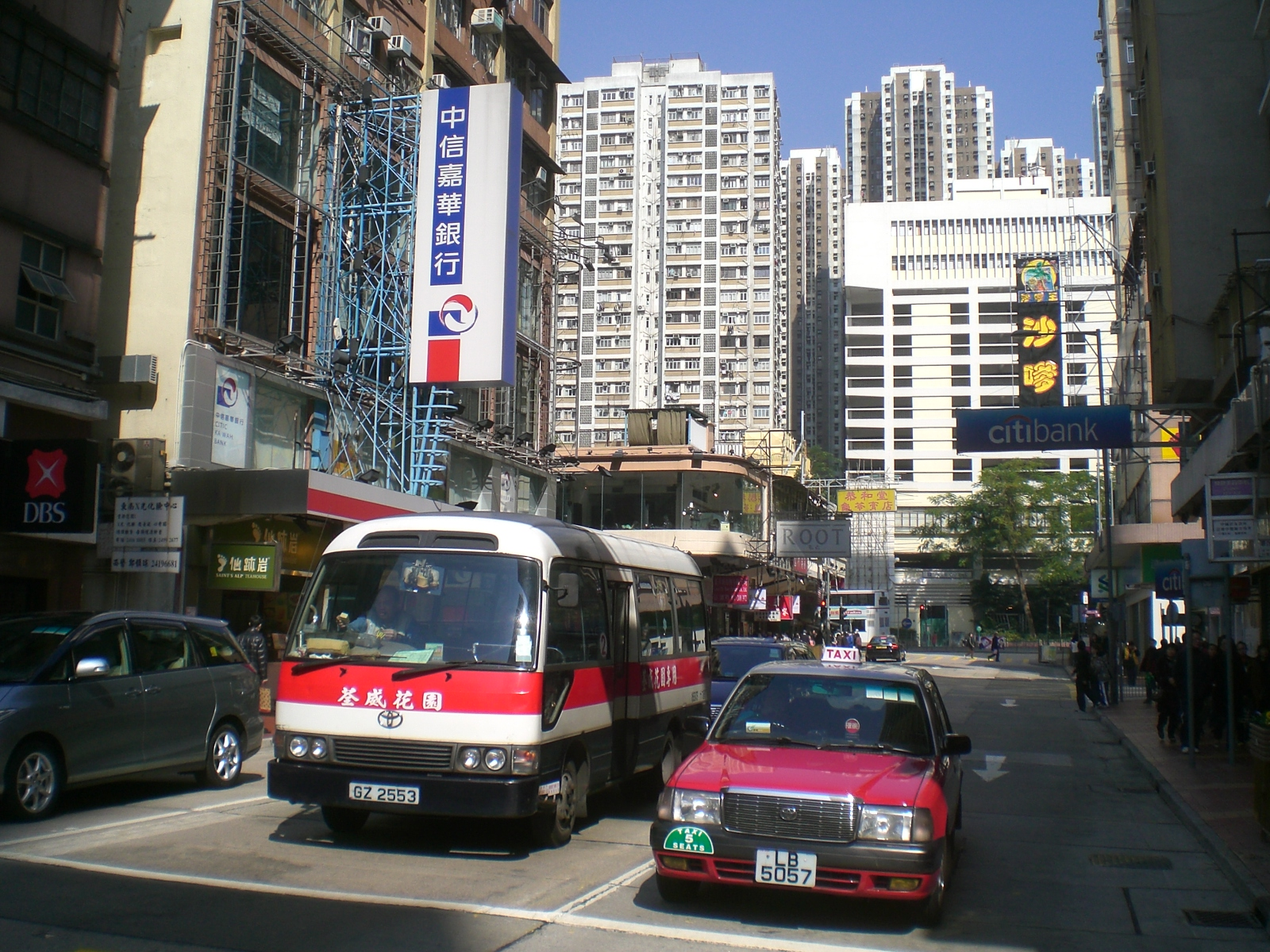 荃灣川龍街 - 荃威花園穿梭巴士